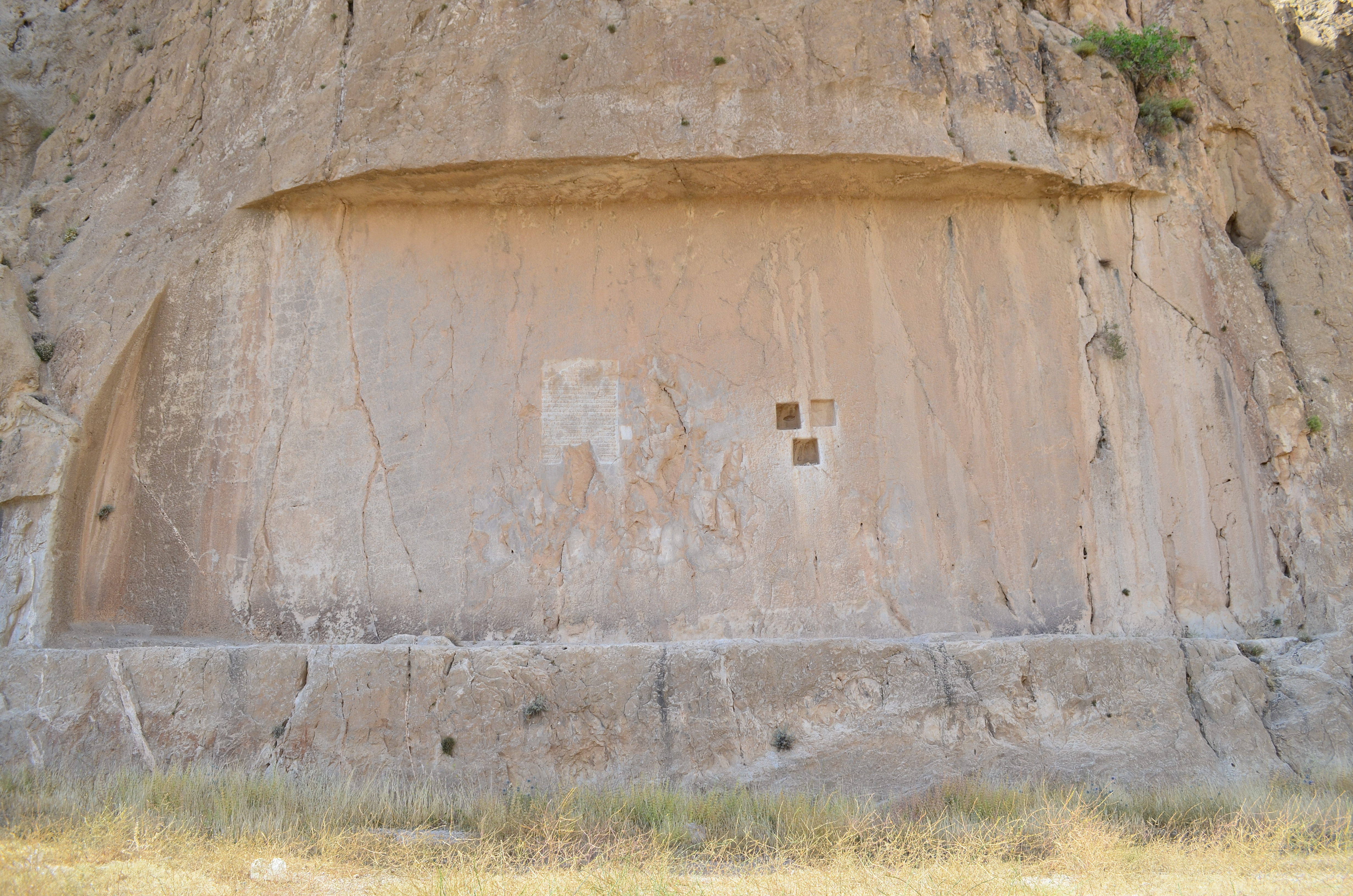 Naqsh-e Rustam